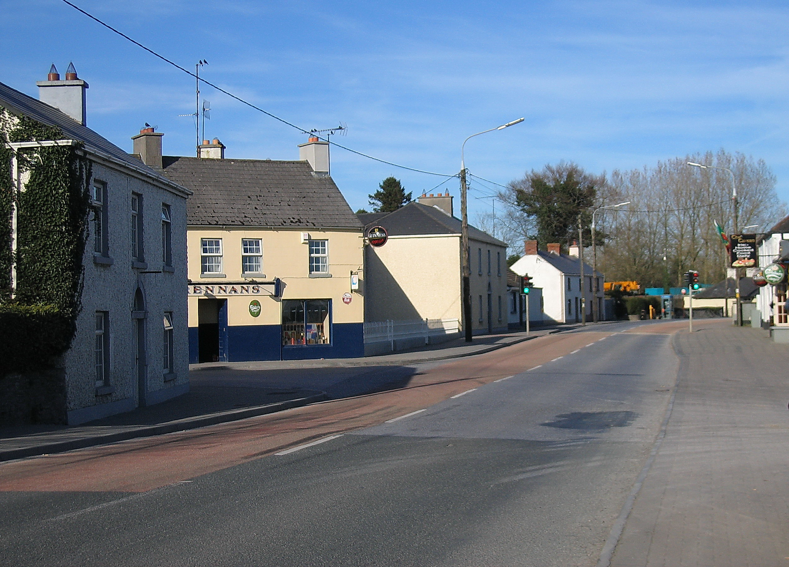 Kinnegad - left is the turn for Galway; this was until recently the junction of the N4 (to Mullingar, Mayo, Sligo and the Northwest) and N6 to Athlone, Galway and The West.